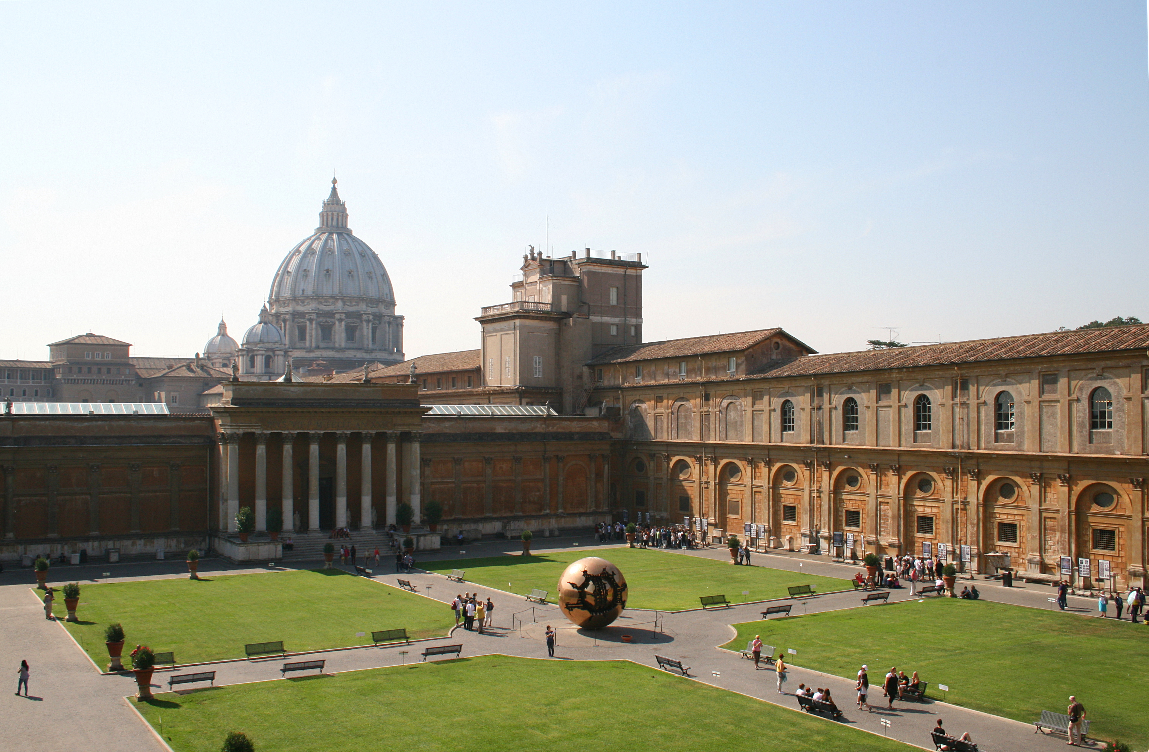 The Cortile della Pigna, the Braccio Nuovo and the dome of the St. Peter's Basilica seen from the Museo Gregoriano Etrusco.